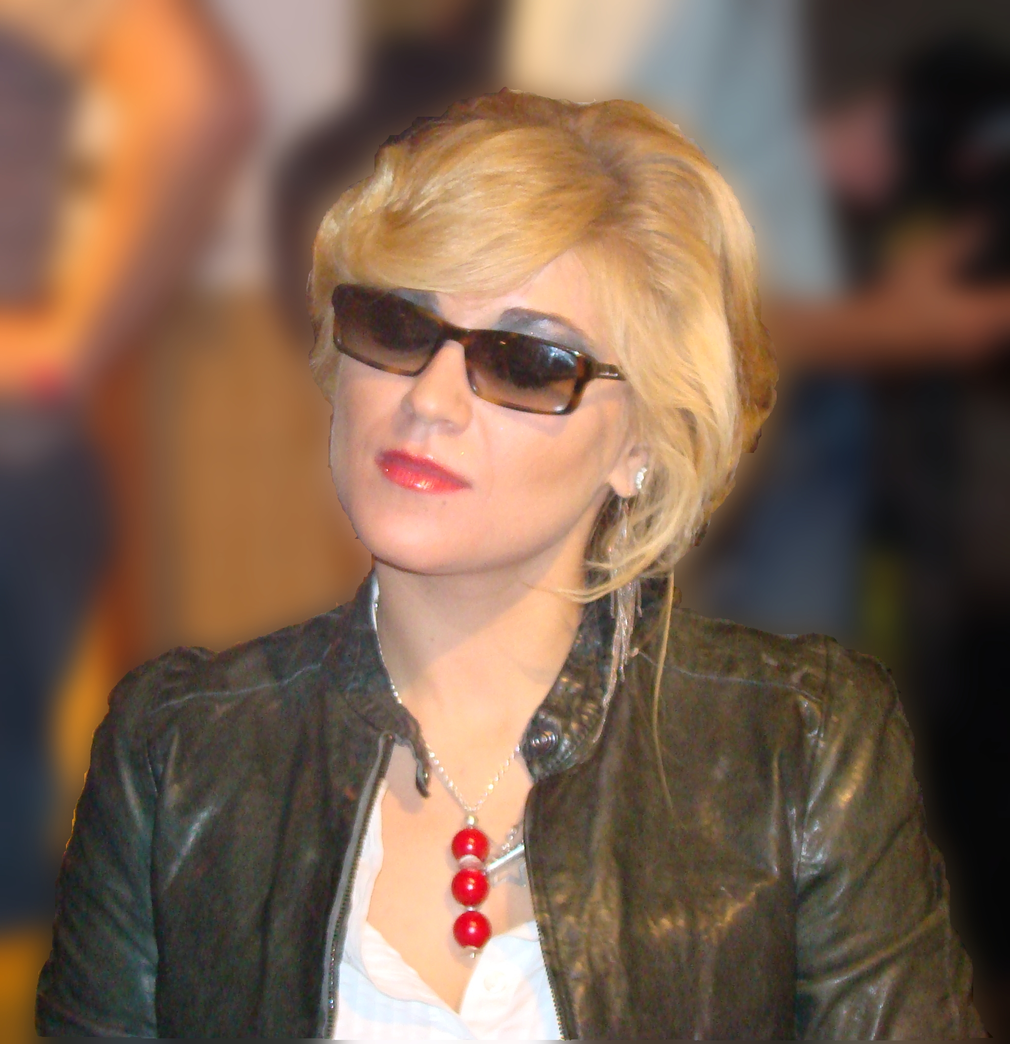 Singer, composer, musician Melody Gardot